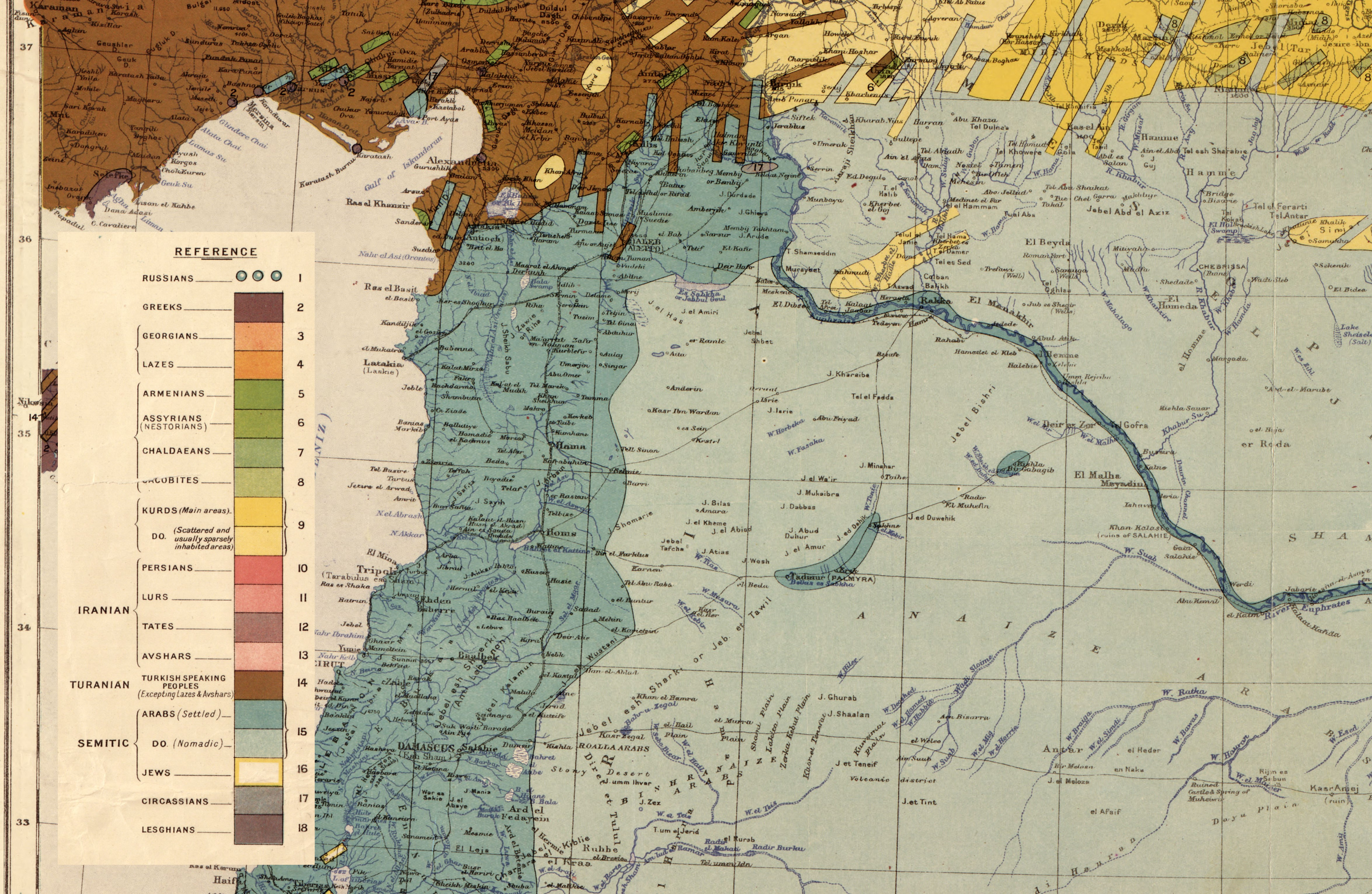 British ethnographic map shows ethnic distribution in Syria. Arabs in blue (dark and light), Kurds in yellow, Turks in brown.